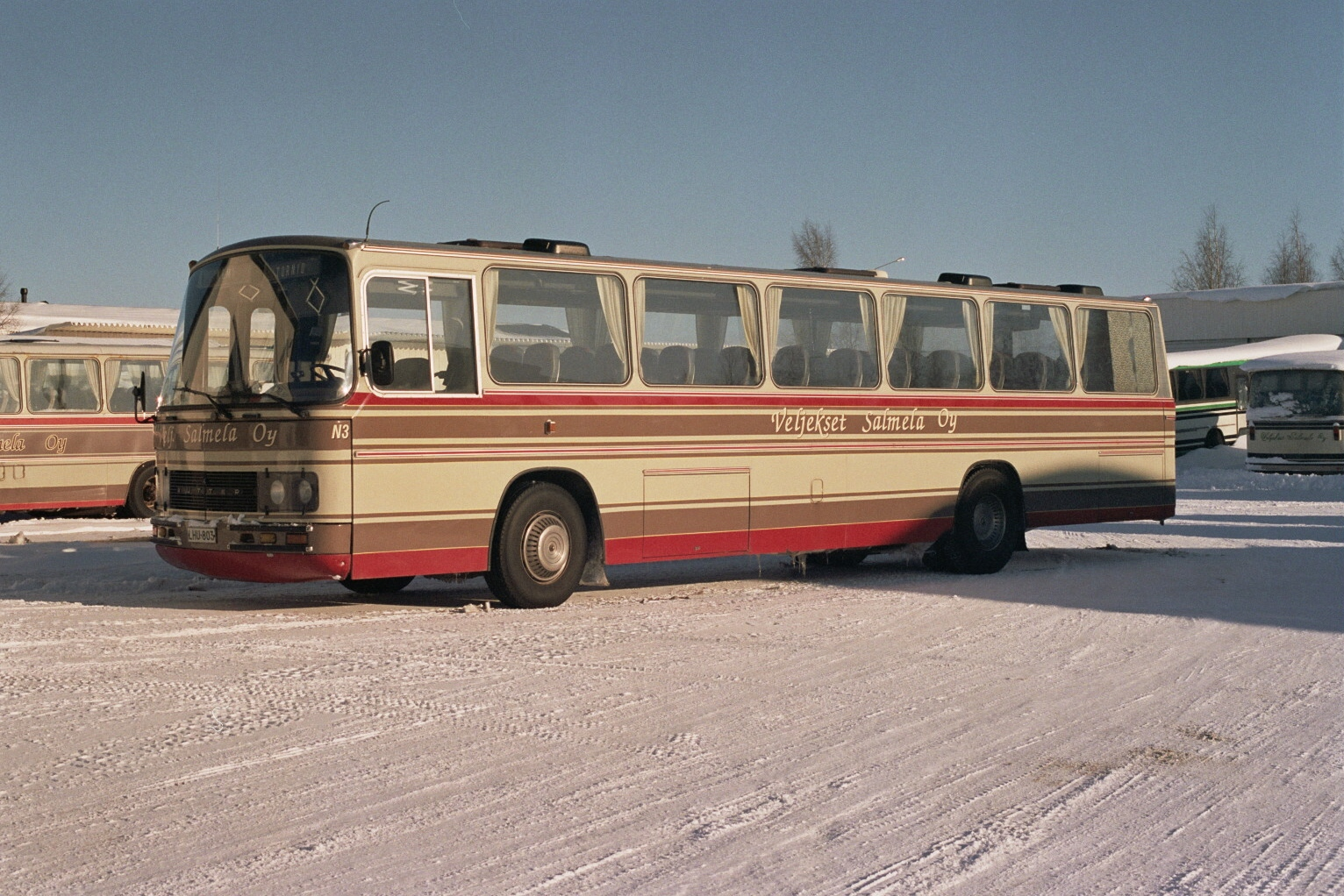 Some of the buses of Veljekset Salmela (Salmela Brothers) in the Torppi district of the city of Tornio in Finland. Veljekset Salmela is a Finnish bus company operating in the northern Finland: in Rovaniemi, Tornio, Kemi, Oulu etc.